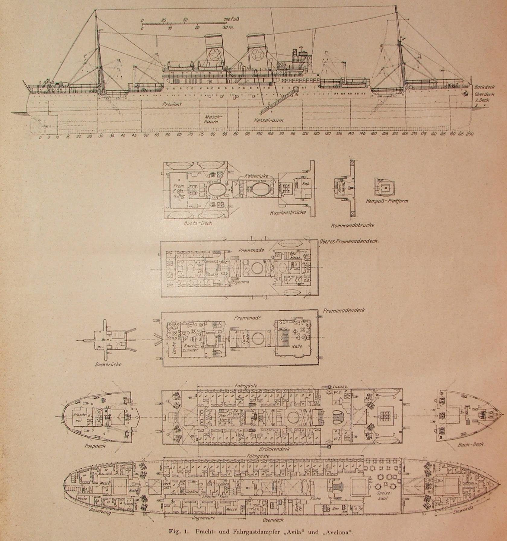 Deckplans of the Blue Star passenger and refrigerated cargo liners Avila and Avelona